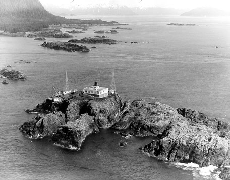 Public Domain statement here; The Cape Spencer Light is a lighthouse in Alaska, United States, next to the entrance to Cross Sound and Icy Strait.